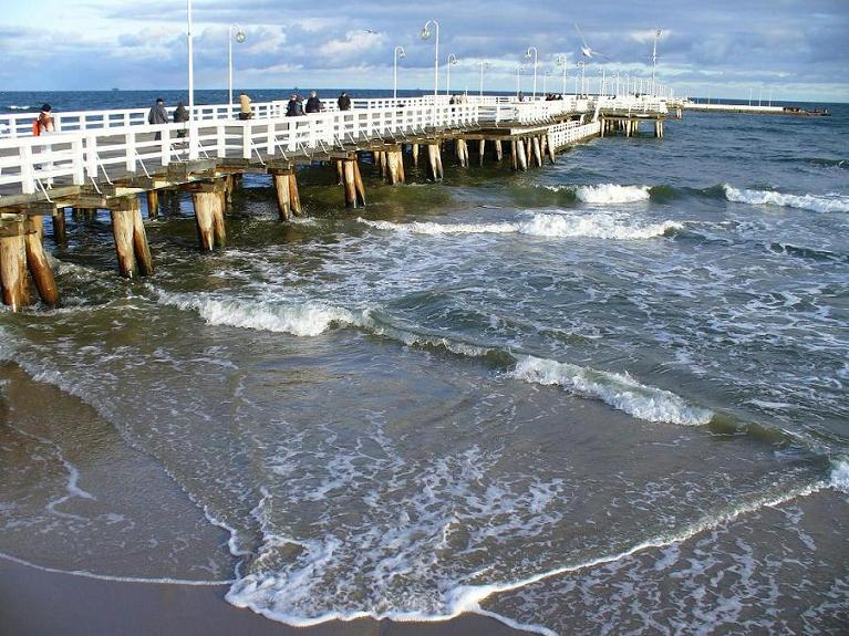 Sopot pier in December 2006. Photo made by Jan Burnewicz with Panasonic Lumix DMC-LZ5